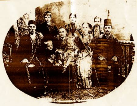 Andon Kirkov, Mariya Kirkova, Kostadin Kirkov and other members of the family family